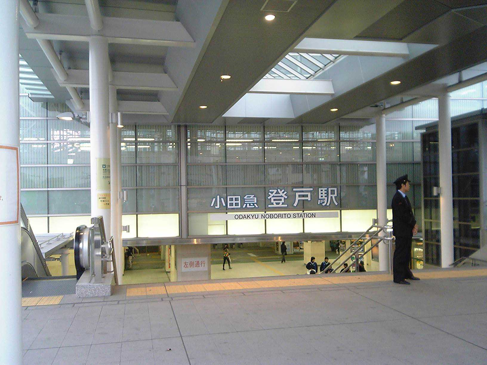 South Exit, OER Noborito Station